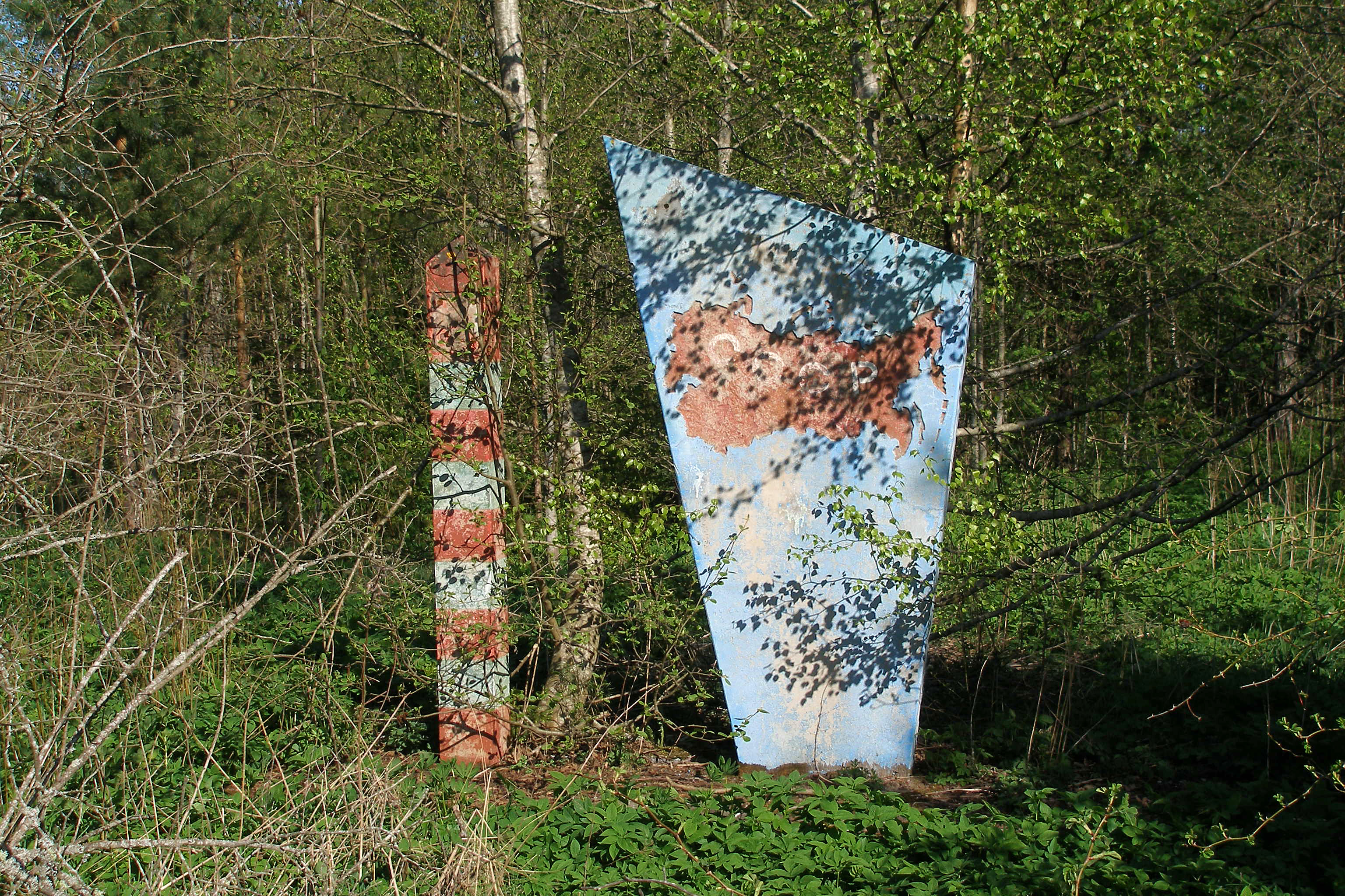 Symbolic USSR boundary stone in former Hara naval base, Lahemaa, Estonia.